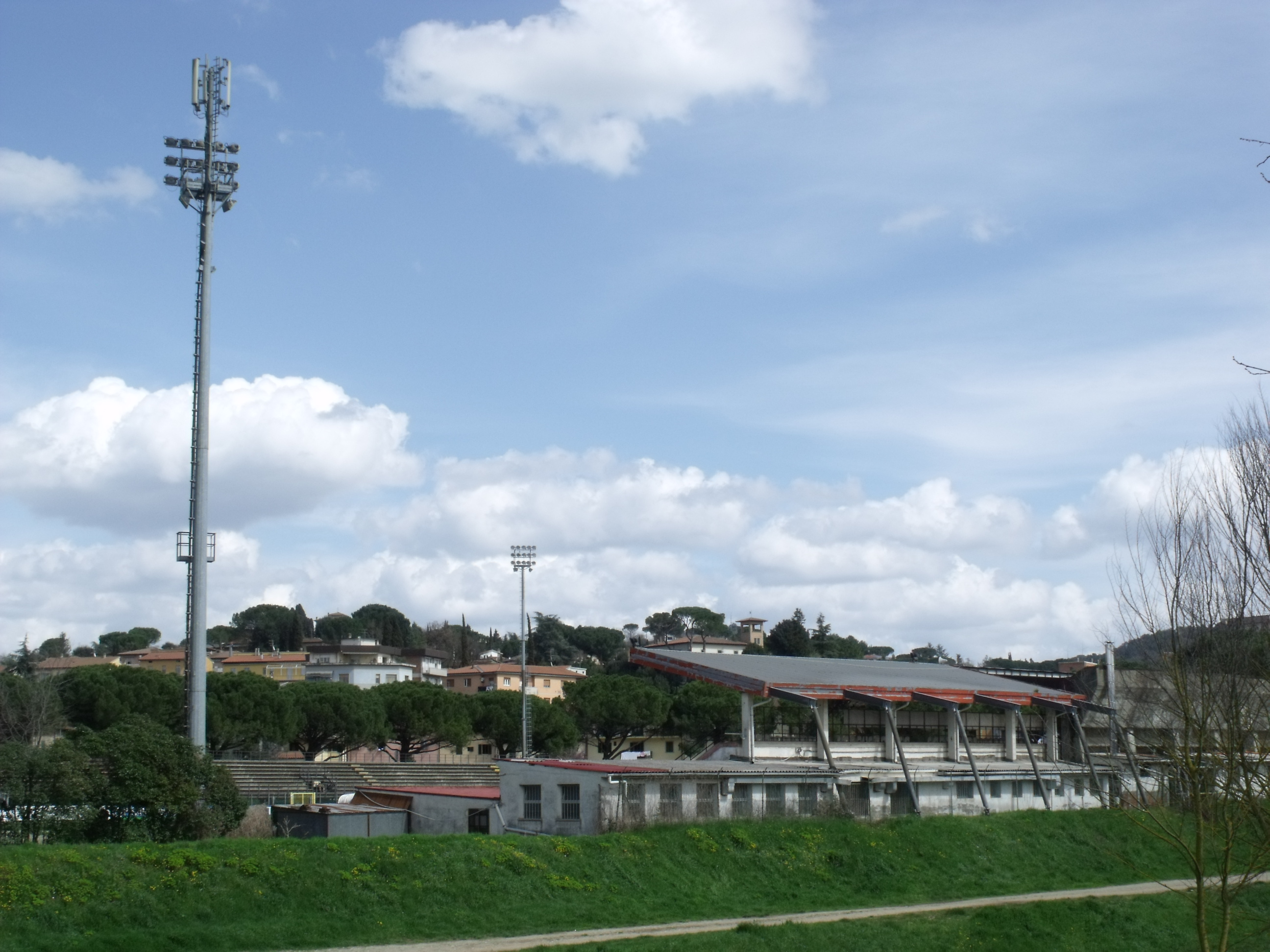 Stadium Stadio Stefano Lotti in Poggibonsi, Province of Siena, Tuscany, Italy